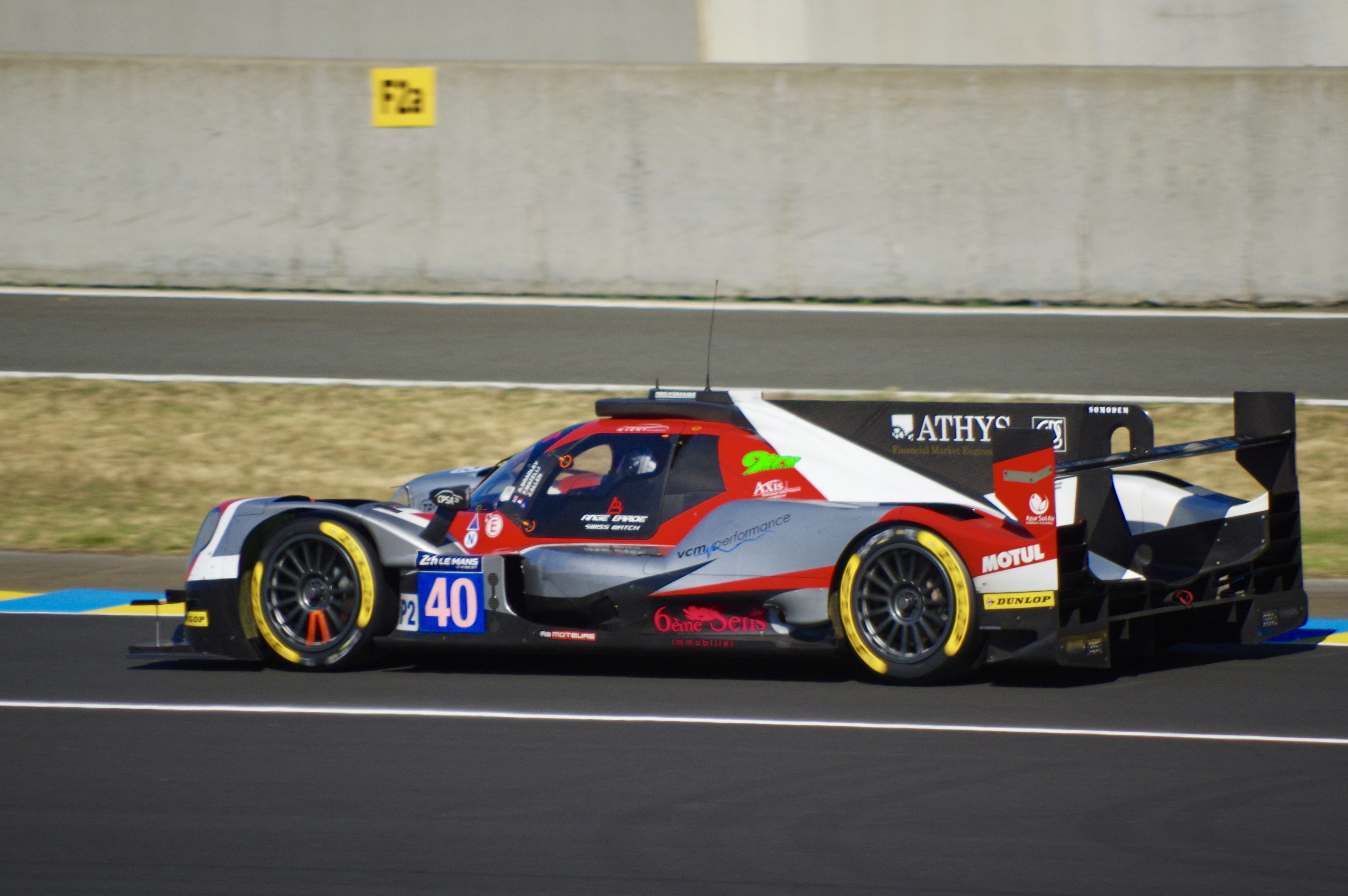 Graff Racing's Oreca n°40 driven by James Allen, Franck Matélli and Richard Bradley at the Le Mans 24 Hours in 2017